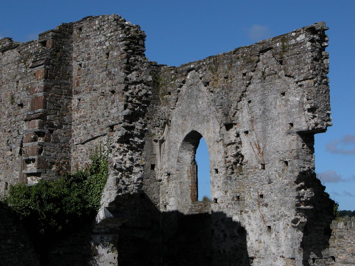 St. Dogmaels Abbey, Pembrokeshire By William M. Connolley, August 2005.